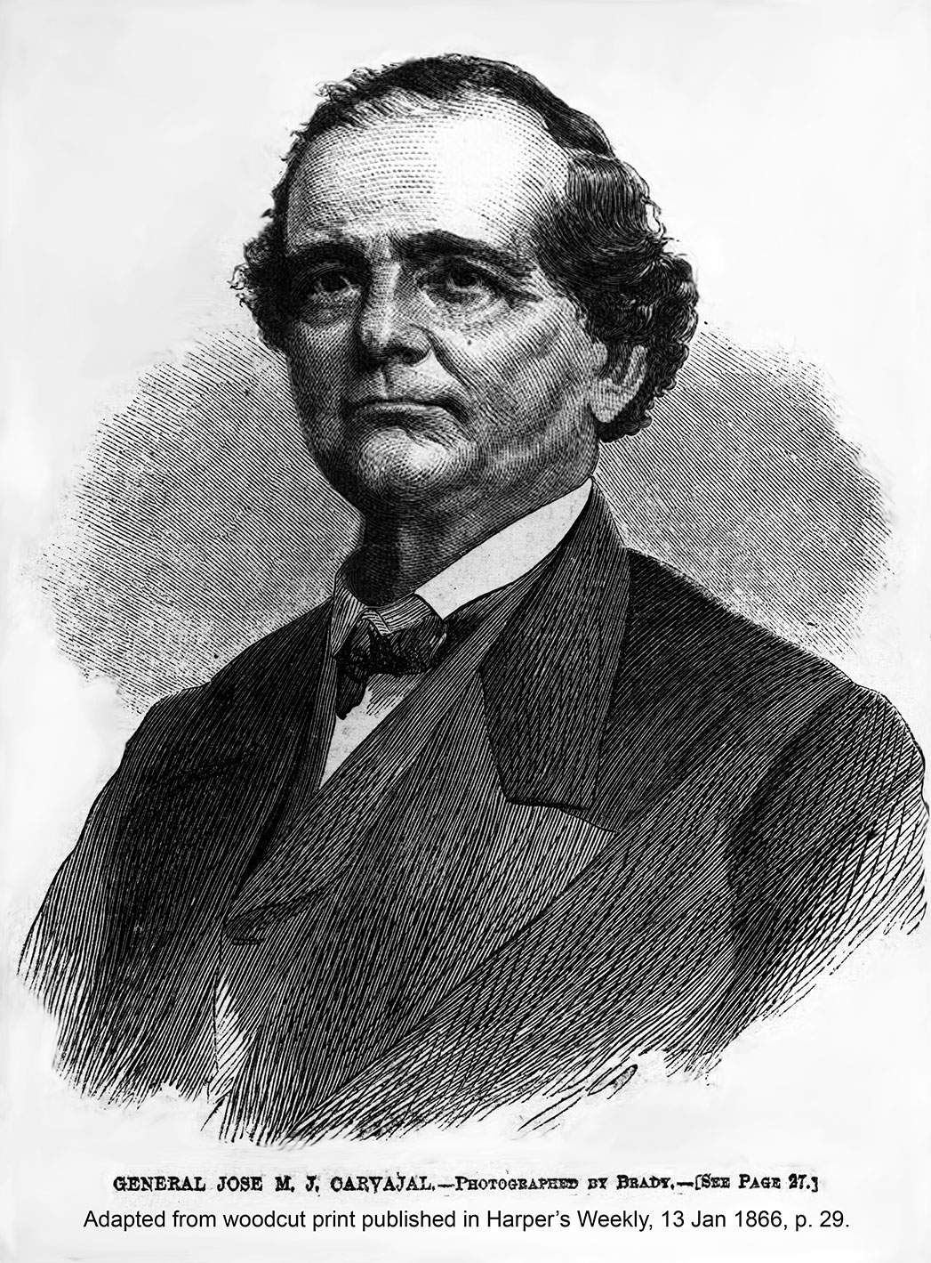 Portrait of Mexican General Jose Maria Jesus Carvajal; woodcut print after a photo by Matthew Brady, first published in 1866.